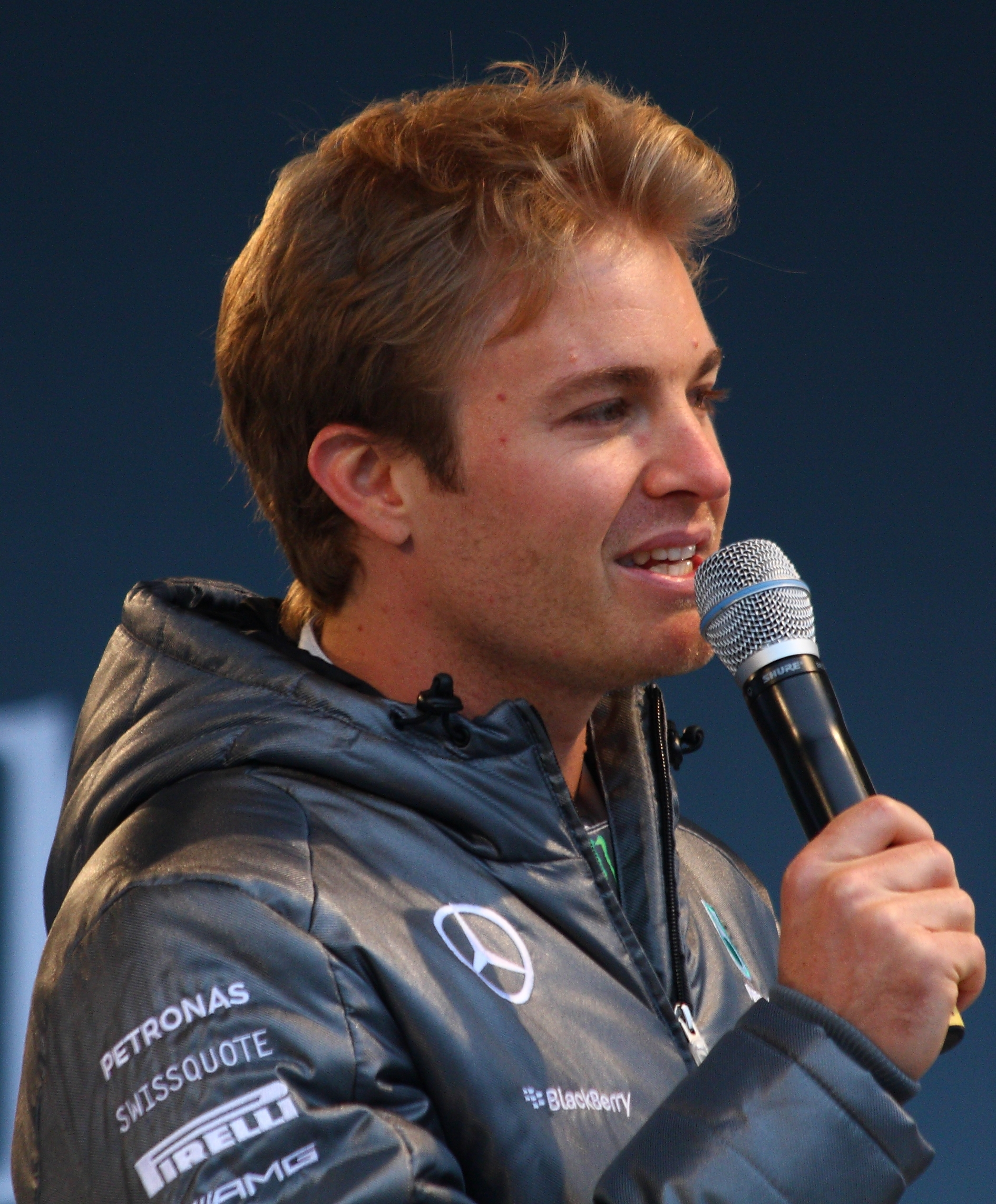 Nico Rosberg at Stars and Cars 2014